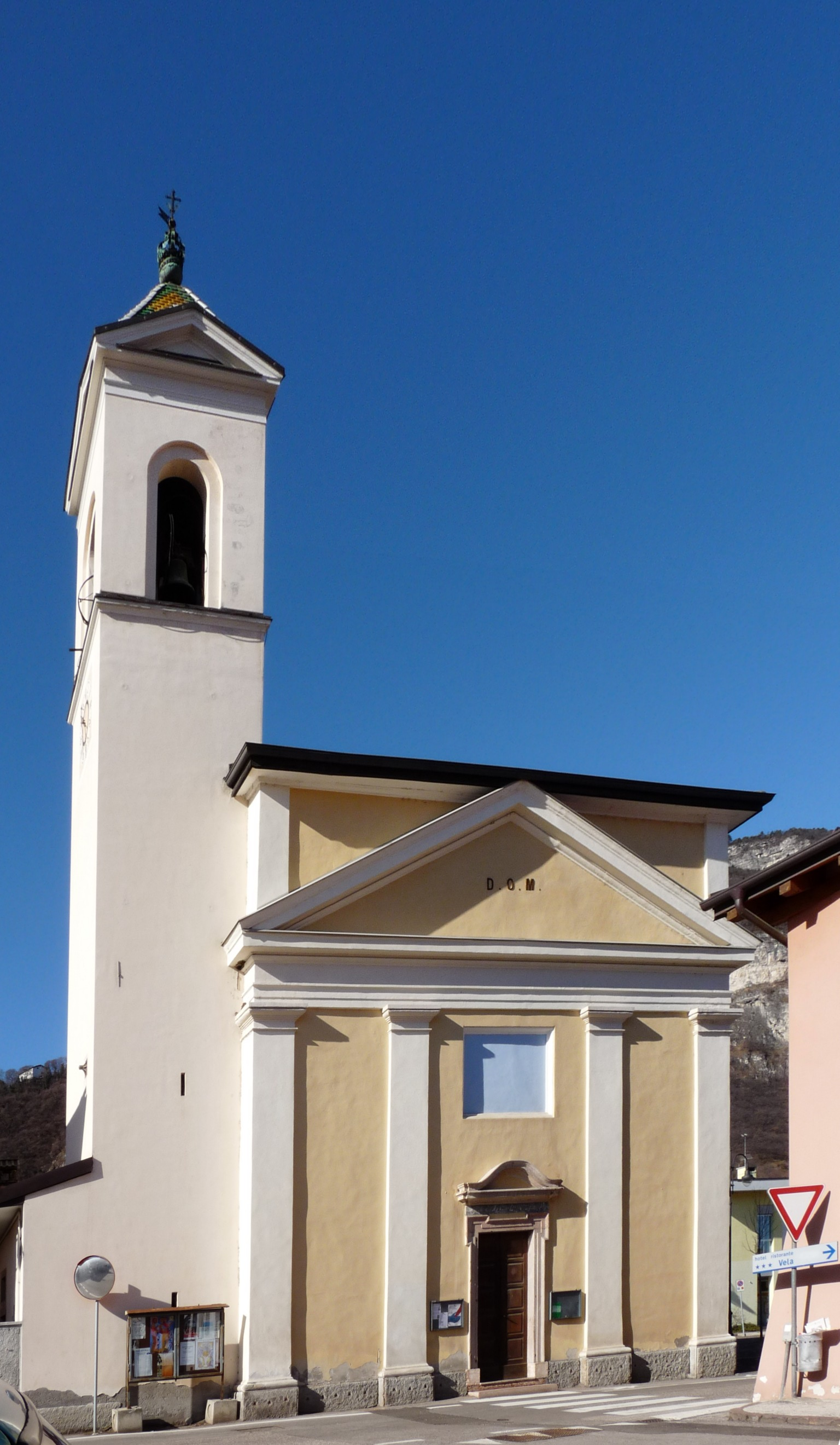 Trento (Italy): front of the church of Santi Cosma e Damiano